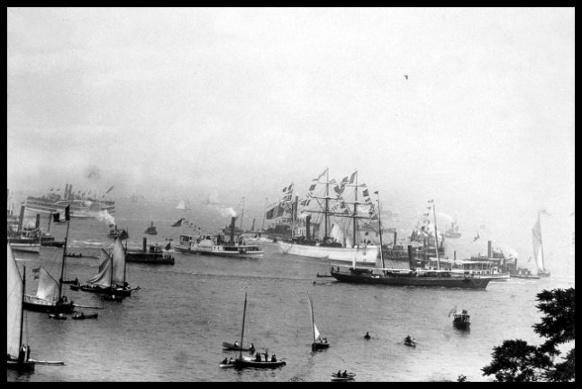 The Statue of Liberty arrives in New York Harbor June 17, 1885, onboard the French frigate Isère. More than 200,000 New Yorkers came out to meet her. Photograph take from on top of the awaiting unfinished pedestal of the statue. The Isère recognisable from its white hull.